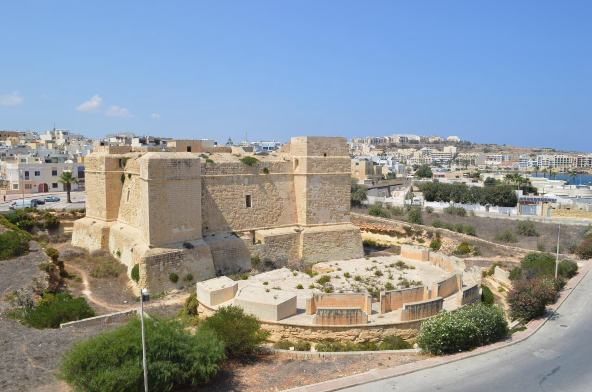 This media is about Maltese cultural property with inventory number 01377.